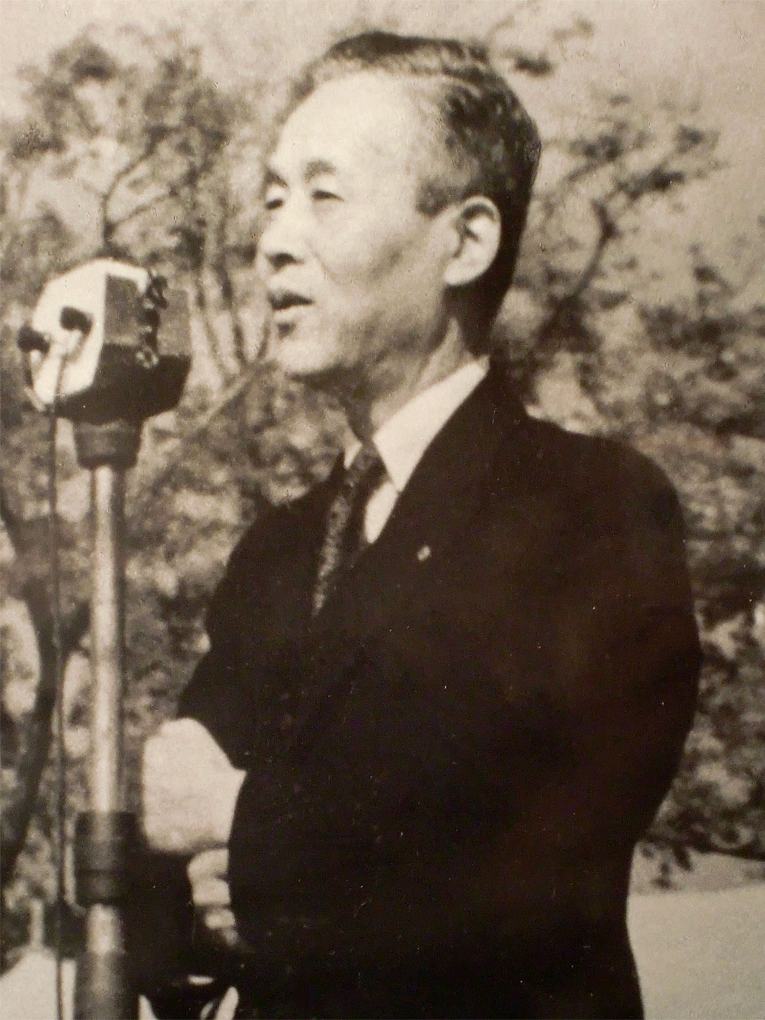 Hiroshi Suekawa, Hirokoji-dori Kawaramachi Nishi-iru Kamikyo-Ku Kyoto-City Kyoto Japan.